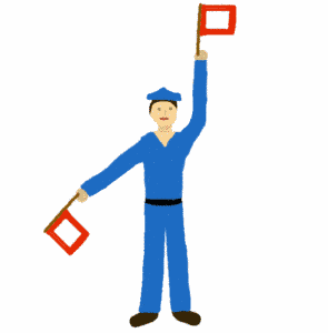 Letter K of the nautical semaphore flag signalling system Source: Martin Hawlisch (User:LosHawlos) My own drawing done in gimp First uploaded to de: in jun-2004